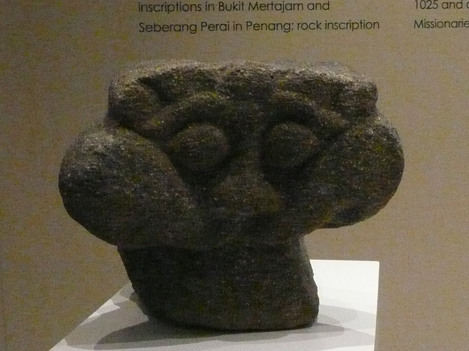 Head of Kala from site 50, Bujang Valley.